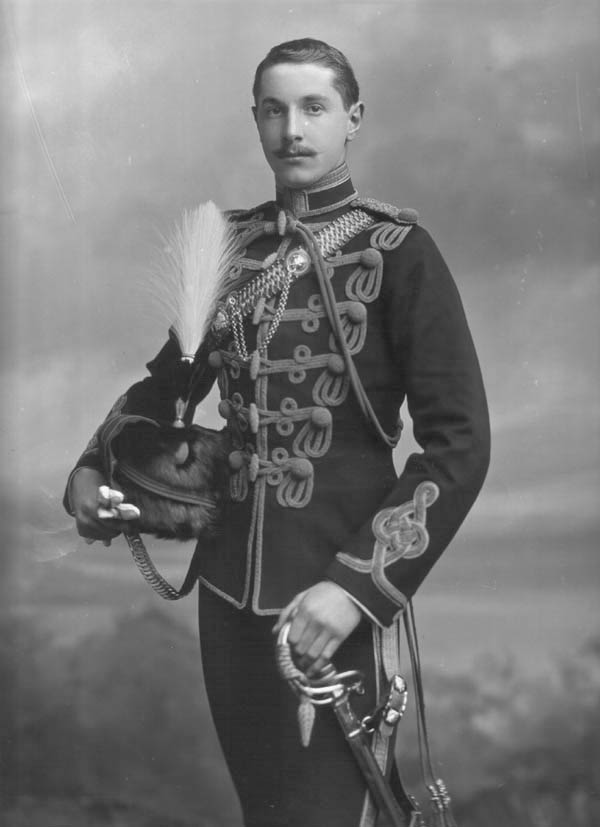 Photographic portrait of 11th Baron Farnham, in Levée Dress, 2nd Lieutenant, 10th (Prince of Wales's Own Royal) Hussars.